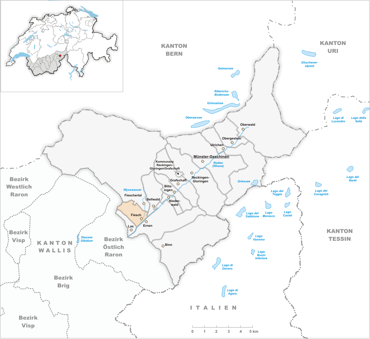 Municipality Fiesch